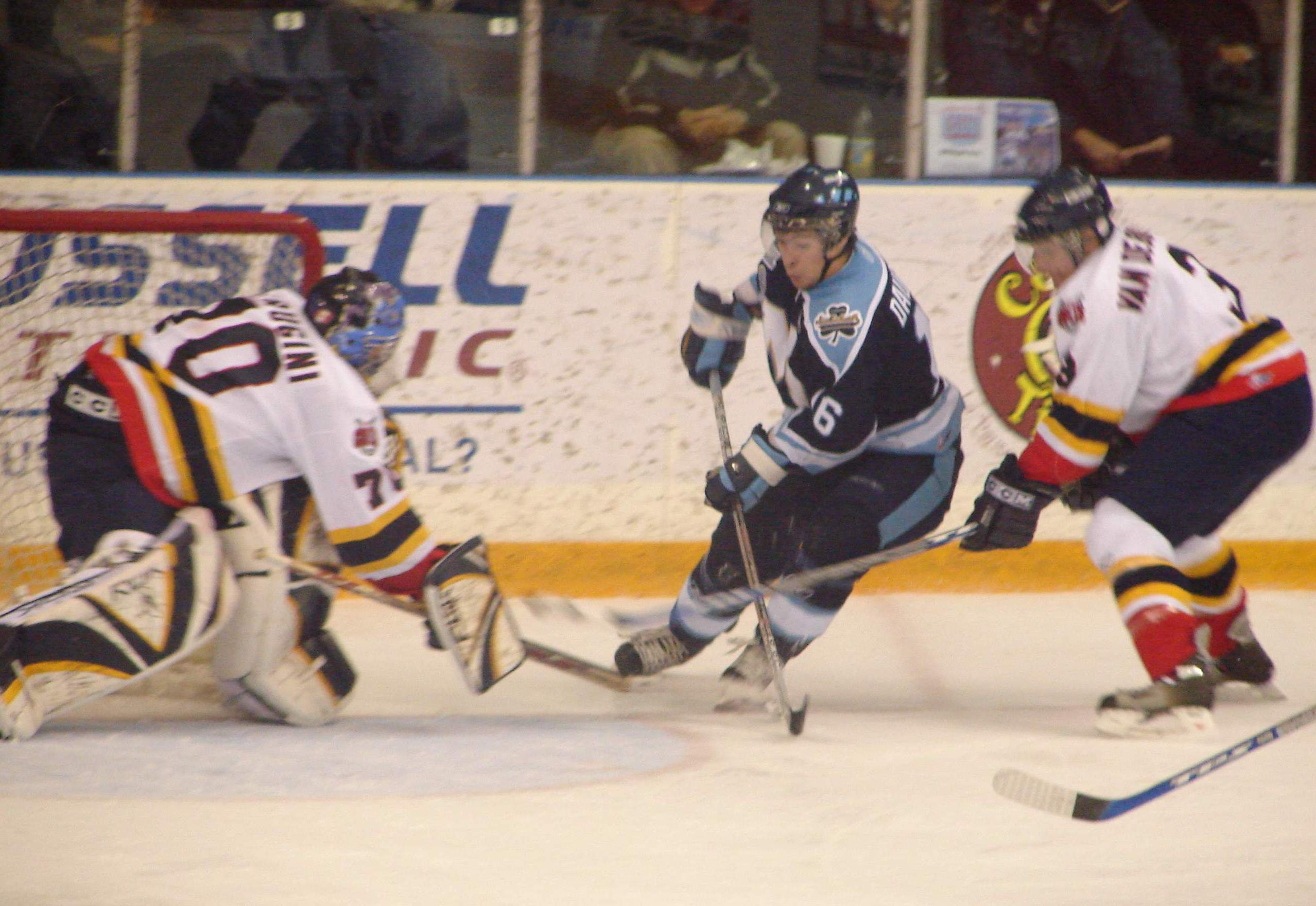 Kaspars Daugavins, #16, December 2006 with Toronto St. Michael's Majors (OHL) in game against Barrie Colts